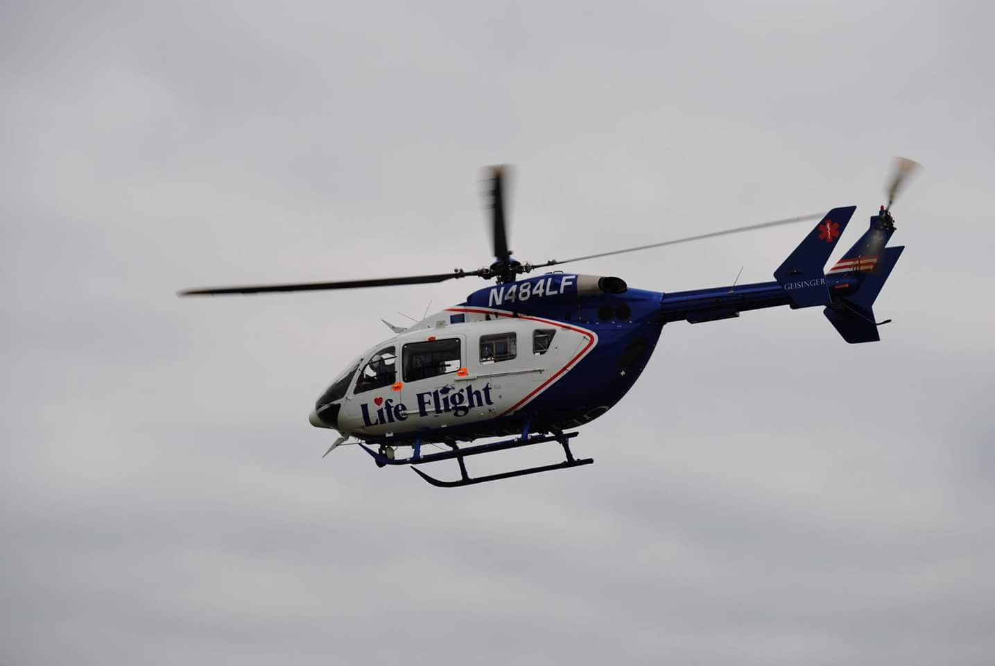 Life Flight helicopter landing at Williamsport Regional Airport